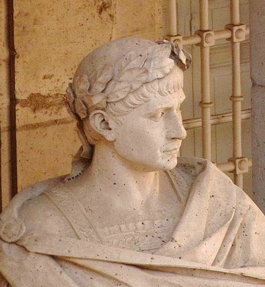 Improved lighting on image of Emperor Theodosius I